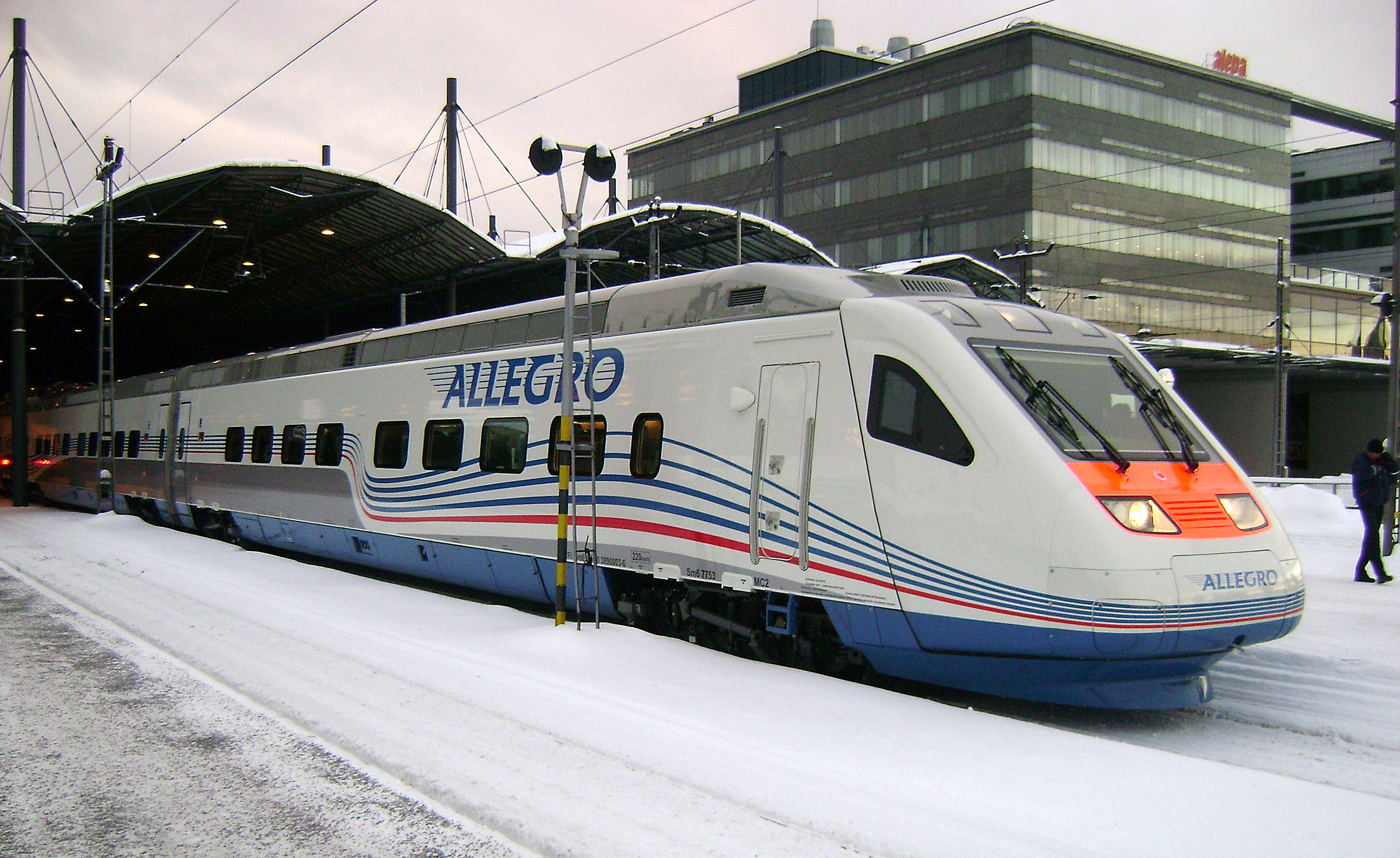 Karelian Trains Class Sm6 "Allegro" at Helsinki Central railway station before its first commercial journey to St. Petersburg, Russia.